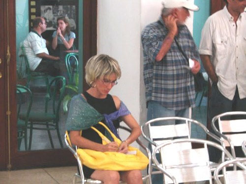 Yoani Sánchez disguised with a wig, in order to be able to enter public debate